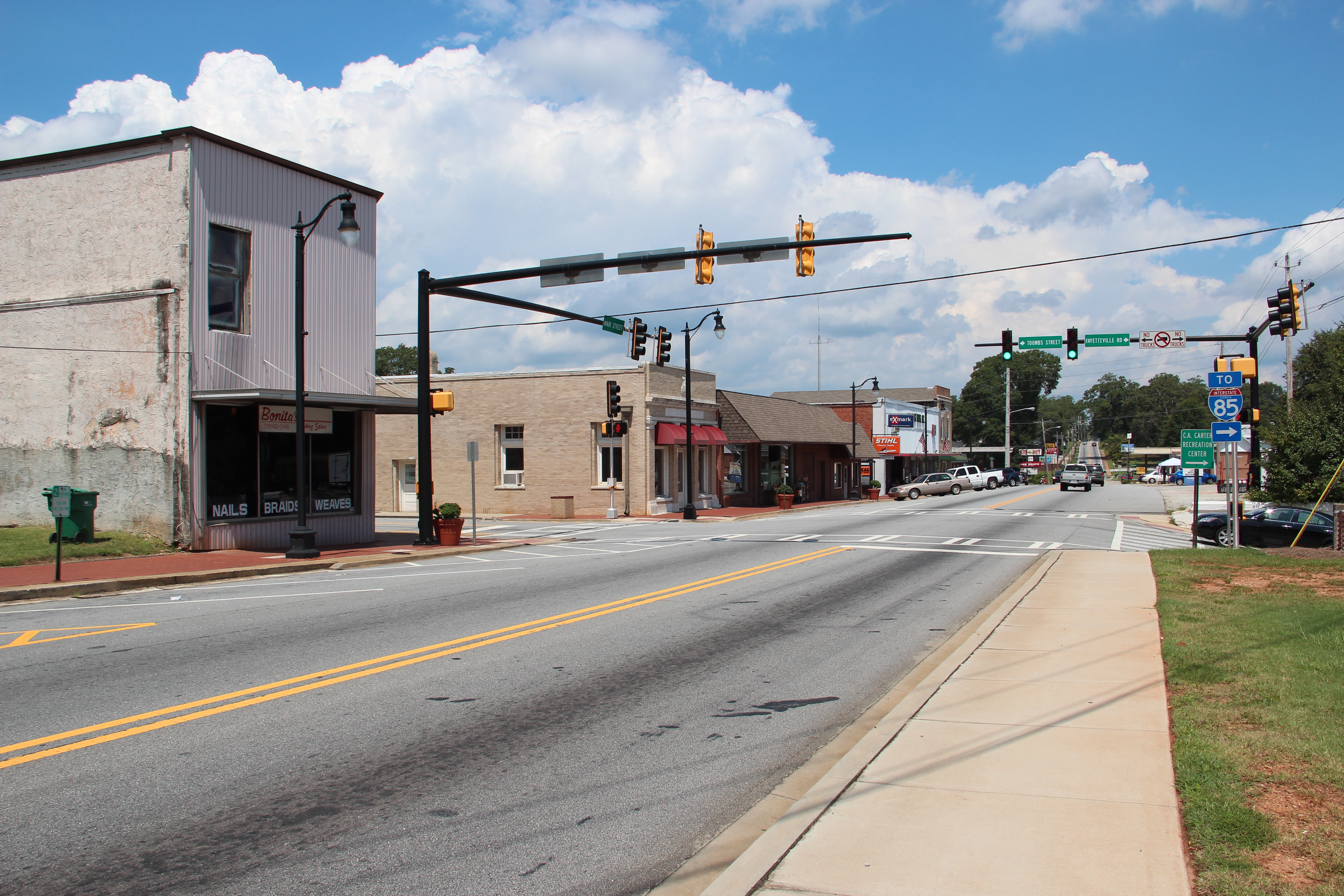 U.S. Route 29 in Palmetto, Georgia